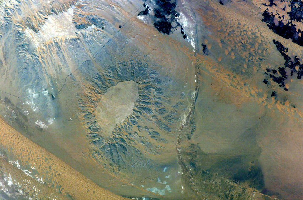 Astronaut photo of Gebel Edmonstone, Egypt. Image has been processed to enhance color variations in the various rock and soil units. The color variations reflect differences in composition (or weathering) of the various rock units. The limestone unit capping Gebel Edmonstone and the adjacent scarp ranges from white to gray in color, while the underlaying fine-grained sedimentary layers are blue-gray. Hillslope pathways for sediment movement downslope are clearly visible as brown to tan streamers originating from Gebel Edmonstone. Barchan dune fields are also visible in this color-enhanced image (lower left), and are distinct due to their mineralogical composition. Evaporite deposits are bright white (center top), while vegetated portions of the Oasis—mostly agricultural fields—are dark blue-black.